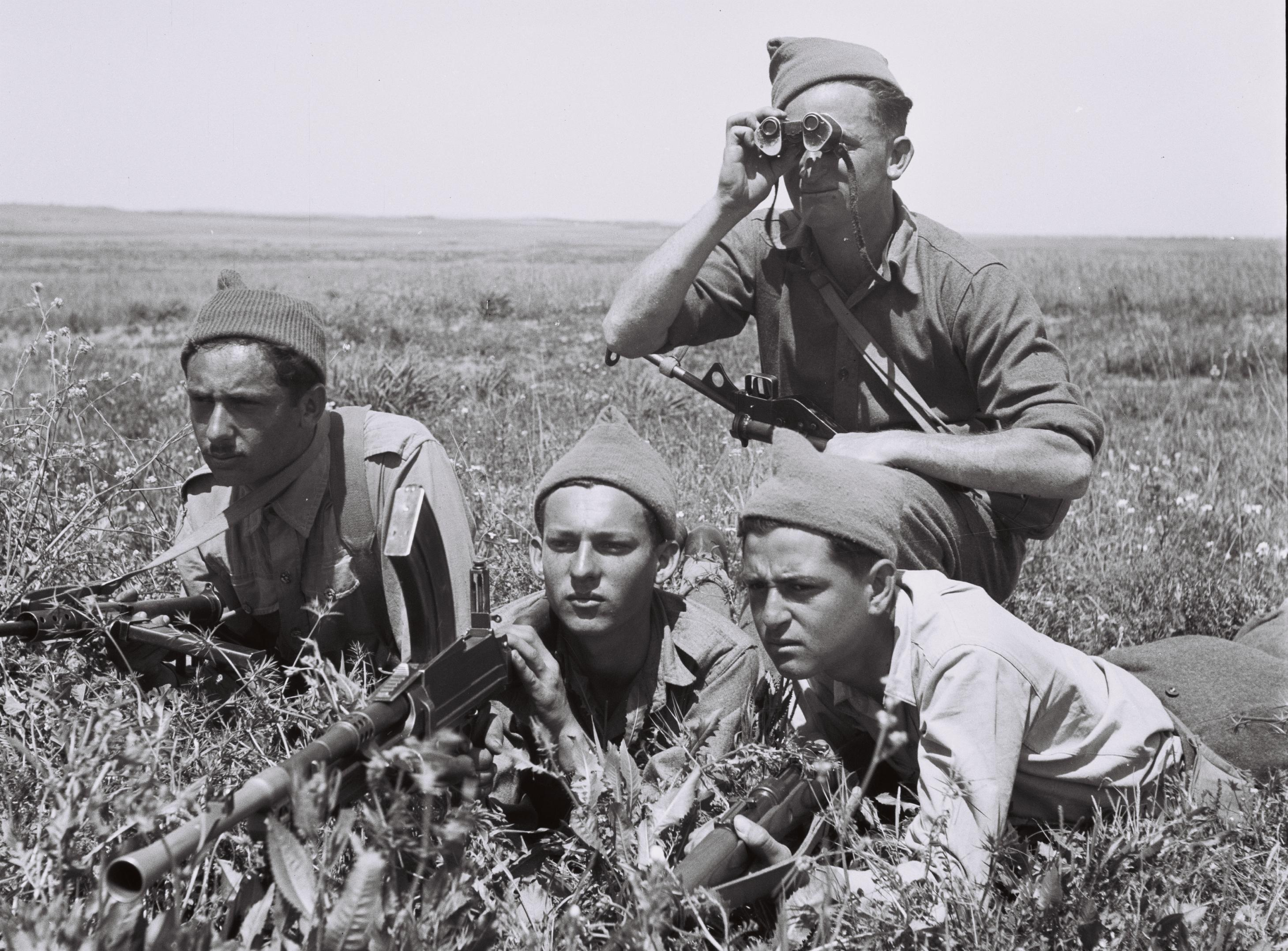 HAGANA MEMBERS TRAINING IN THE YIZREEL VALLEY. חברי הגנה מתאמנים בעמק יזראל Photo: Zoltan Kluger (1896–1977) Alternative names Qlwger, Zwlṭan; Zolṭan Ḳluger; Kluger, Z.; W. von Szigethy; W. Von SzighethyDescriptionHungarian-Israeli photographerDate of birth/death 8 February 1896 16 May 1977Location of birth/death Kecskemét ManhattanAuthority control : Q7035699 VIAF: 19504001 ISNI: 0000 0000 6686 1613 ULAN: 500483392 LCCN: no2008144265 Open Library: OL6614008A WorldCat creator QS:P170,Q7035699 , 01/03/1948